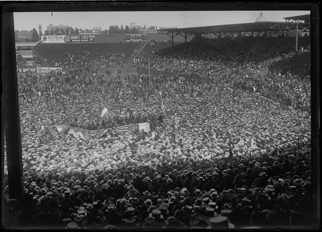 Fenway Park Rally Supporting Irish Independence (1910s)